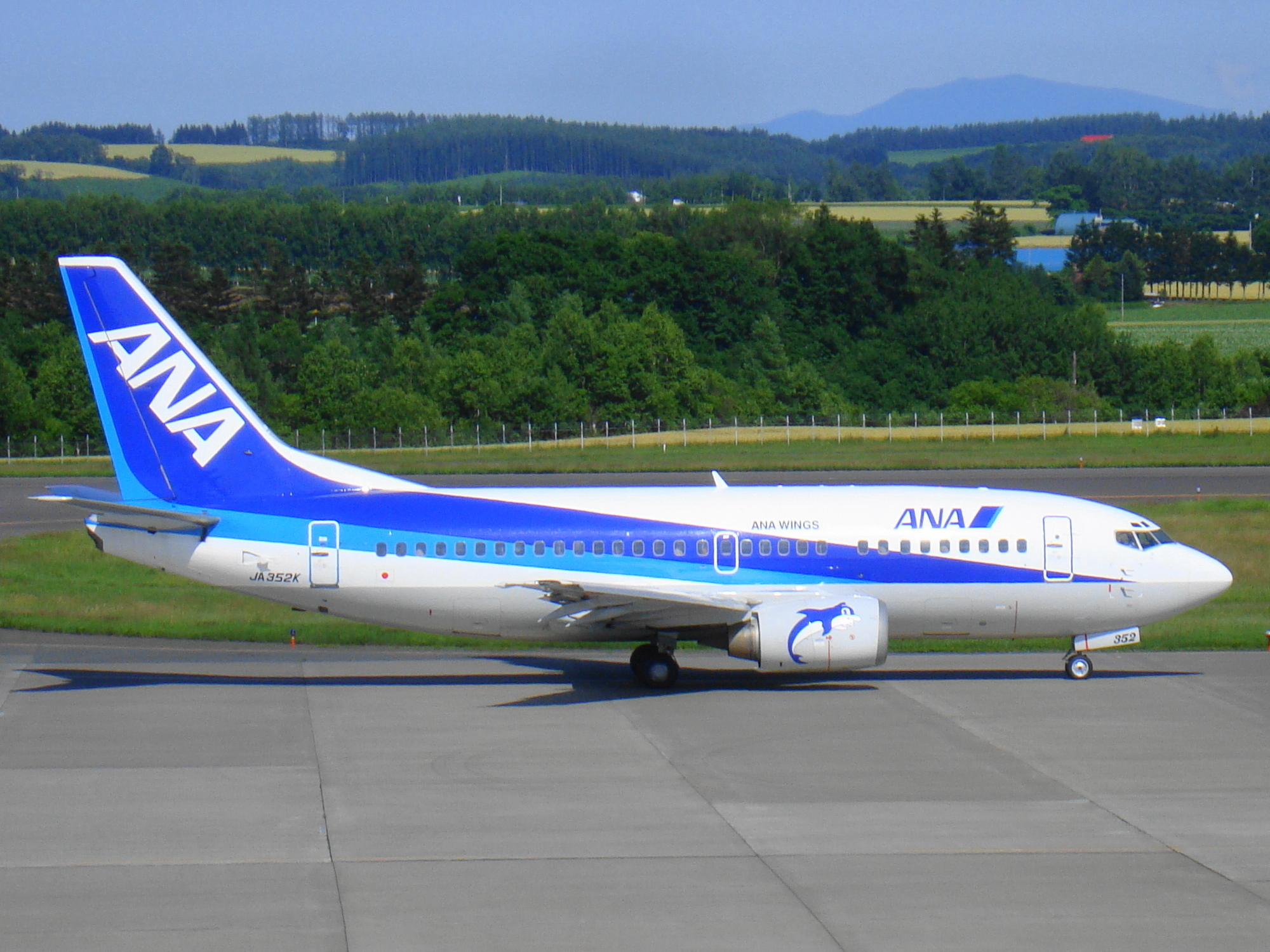 All Nippon Airways(ANA Wings) Boeing 737-500 JA352K